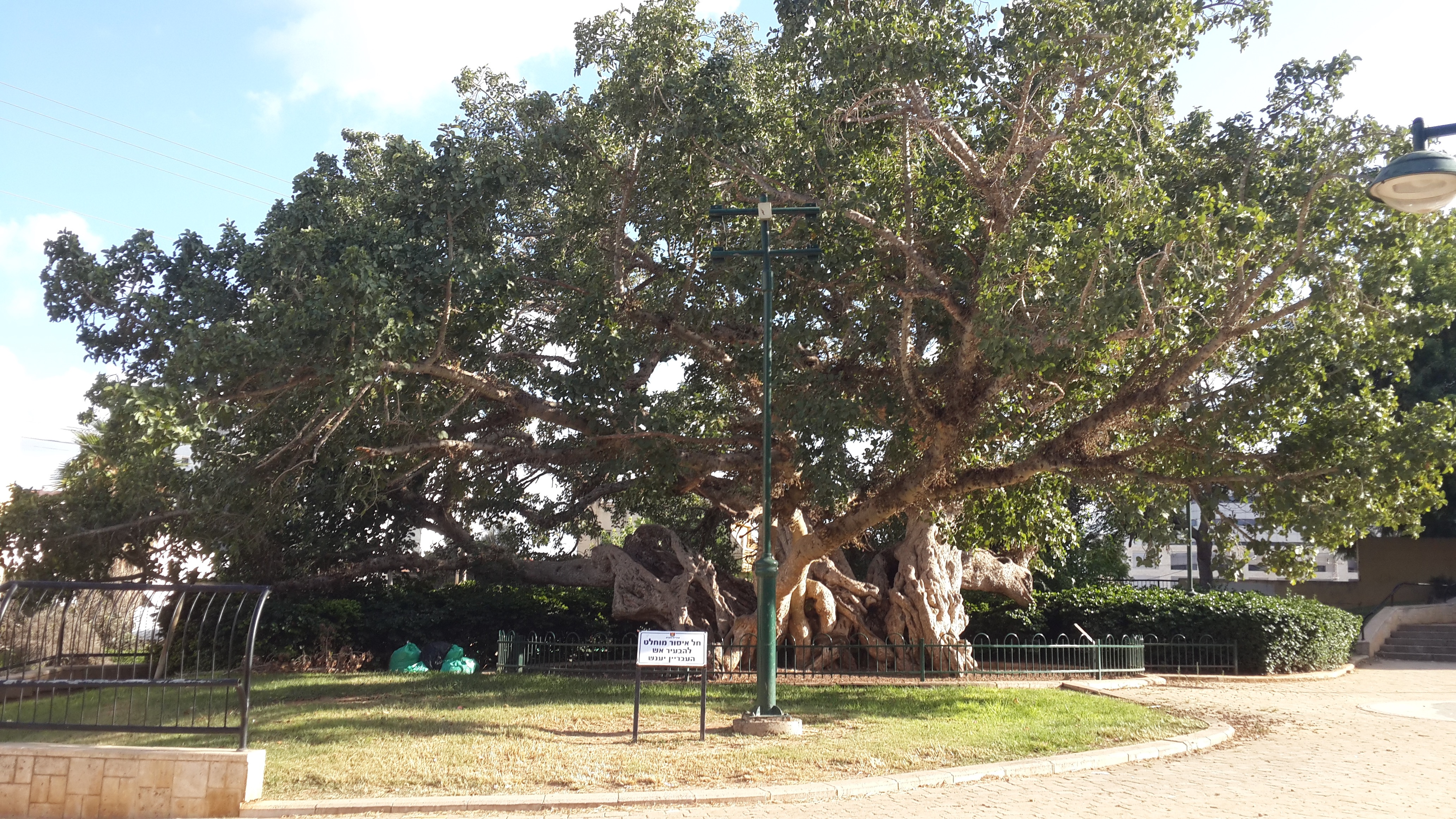 An old sycomorus in Netanya